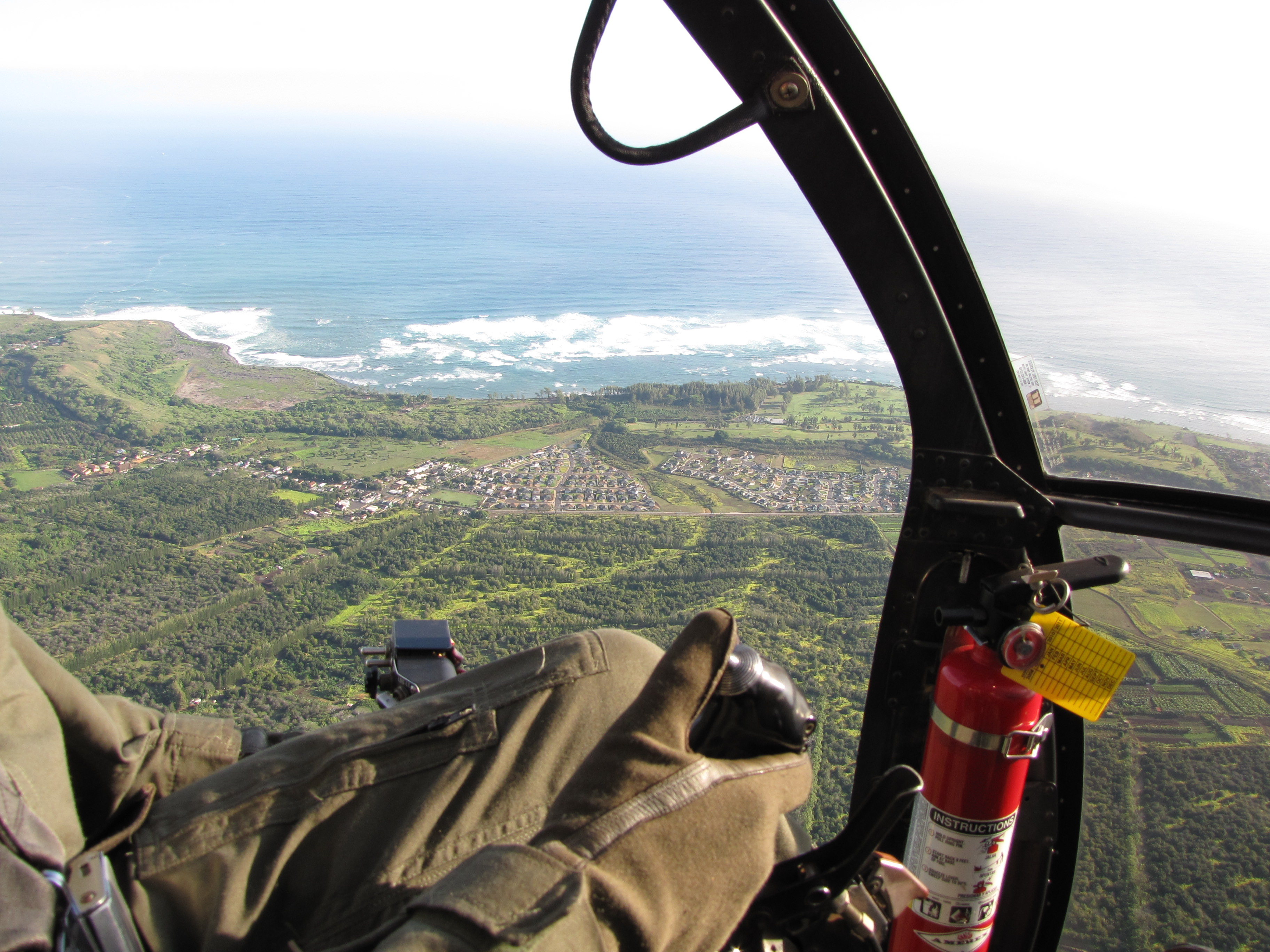 Casuarina equisetifolia (Ironwood) Aerial view with surf at Waihee West Maui, Maui, Hawaii. November 12, 2009 #091112-9583 Image Use Policy